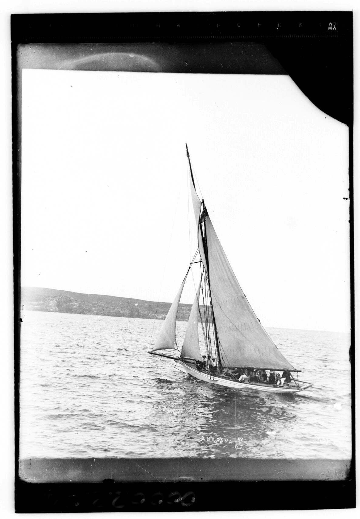 During the late 1880s and early 1900s photographers William F Hall and his son William J Hall documented the weekend sailors and yachts of Sydney Harbour. Each Monday the images would be display in the window of their studio at 20 Hunter Street.